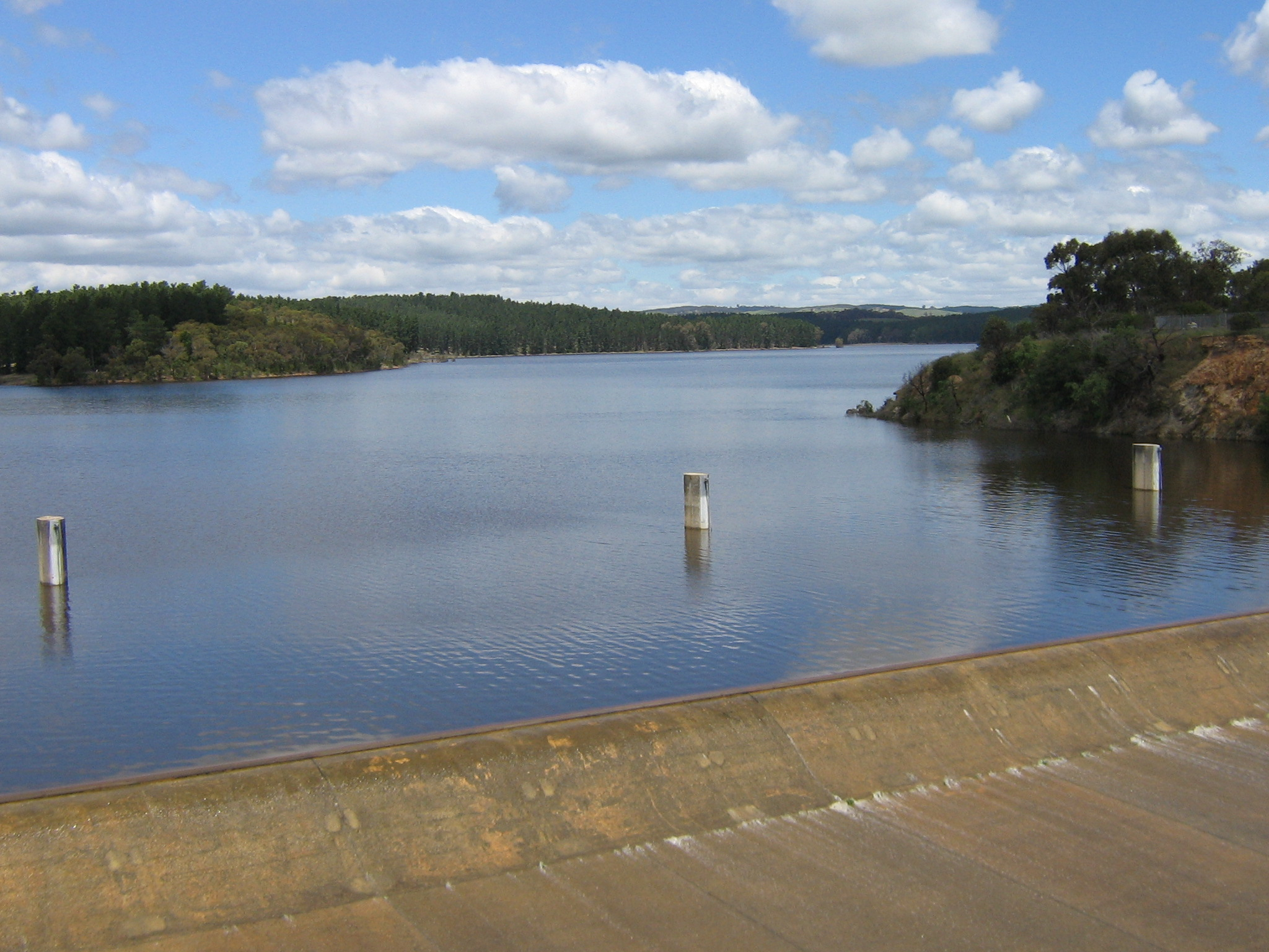 Photograph by Scott Davis of South Para Reservoir from the bridge over the spillway.